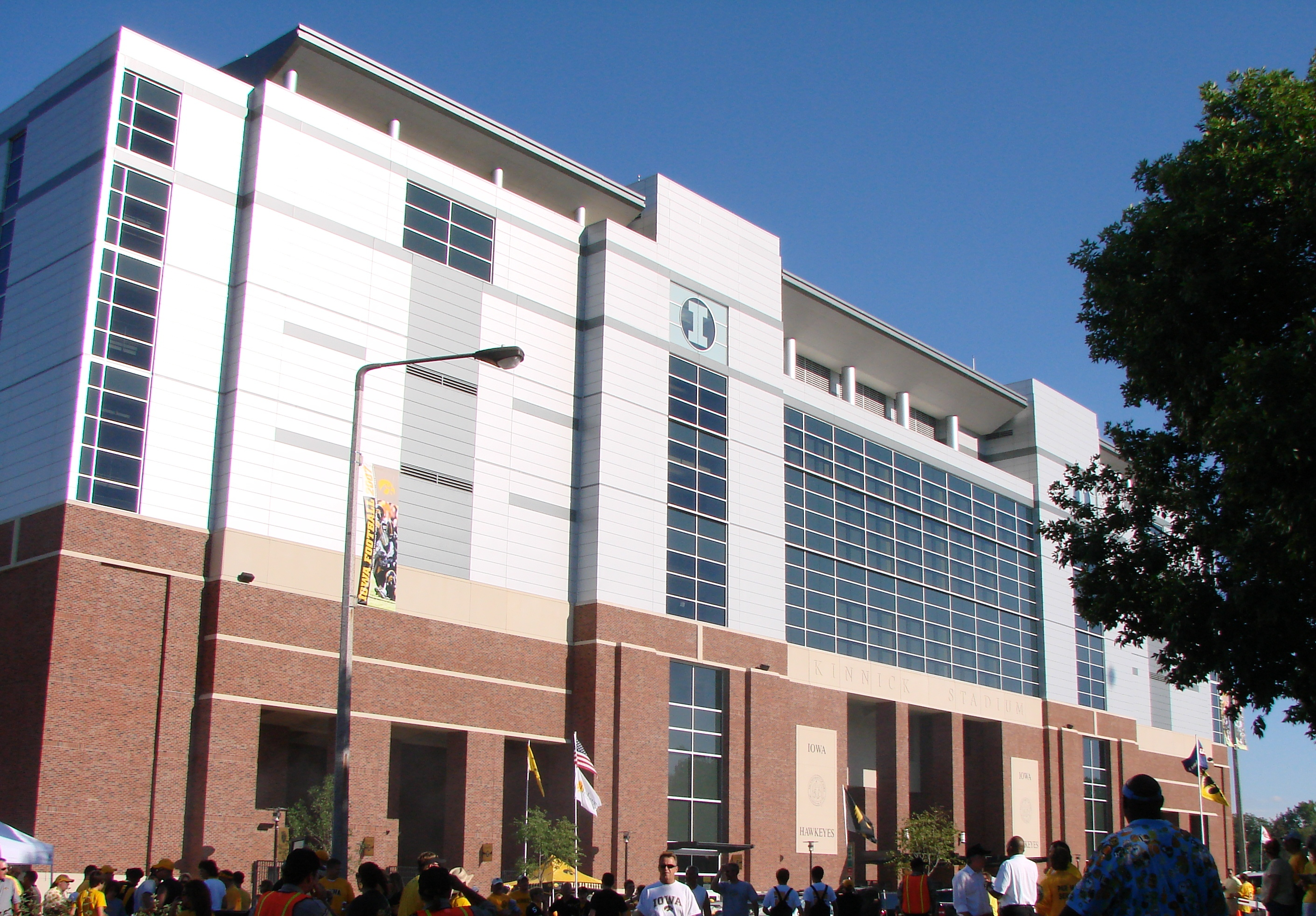 Picture of Kinnick Stadium's press box from the outside.